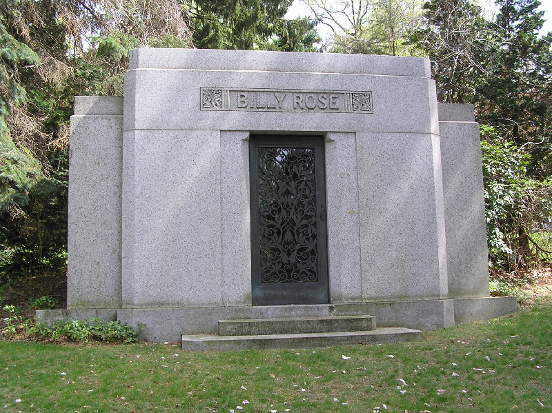 I took this photograph of the mausoleum of Billy Rose in Westchester Hills Cemetery on April 21, 2006. —GNU Free Documentation License